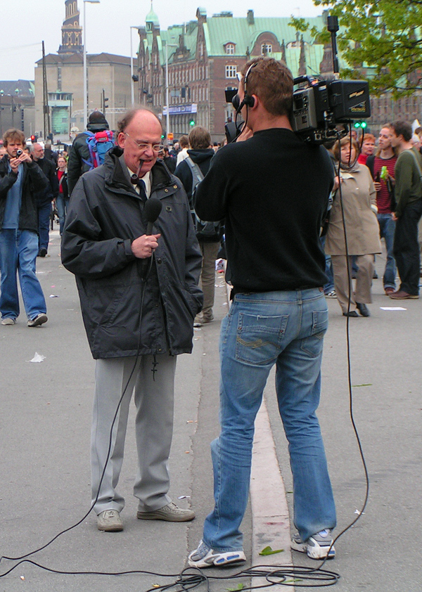 Danish TV2 and political commentator Kaare R. Skou outside Christiansborg, Copenhagen on demonstration against the Fogh-government and for future welfare, May 17th, 2006